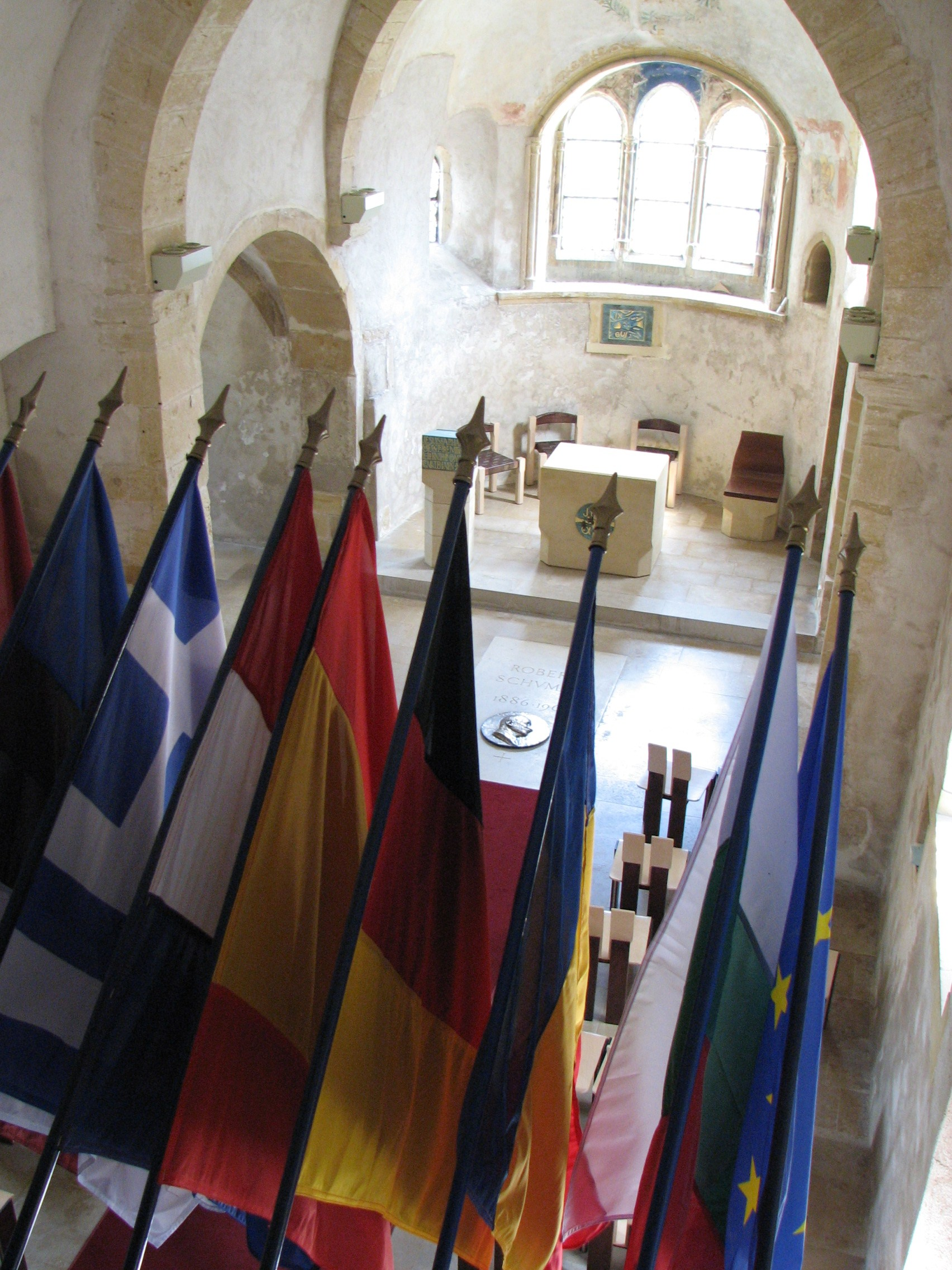 St. Quentin church (Scy-Chazelles, near the city of Metz, in France) with Robert Schuman grave and flags of the European Union countries.